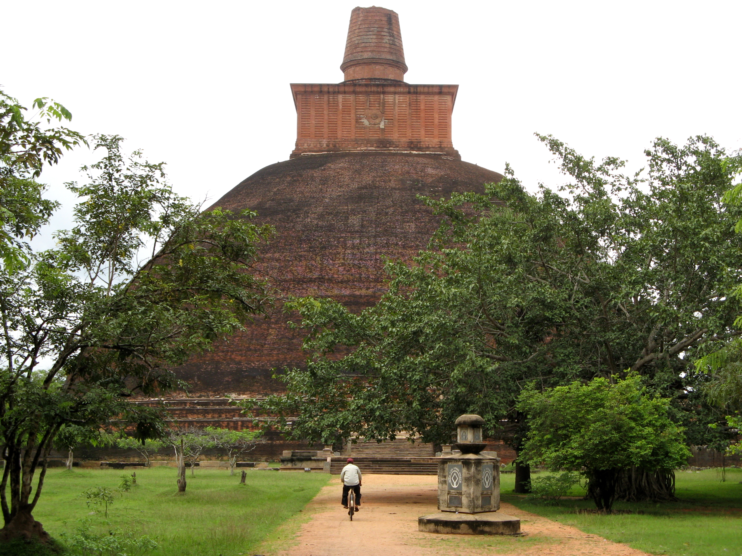 The stupa of Jetavana monastery (4th century AD; restored 12th century AD, and lately by UNESCO) originally stood at 400 ft high. It was the third tallest structure in the ancient world, outmatched only by the pyramids of Khufu and Khafre at Giza.